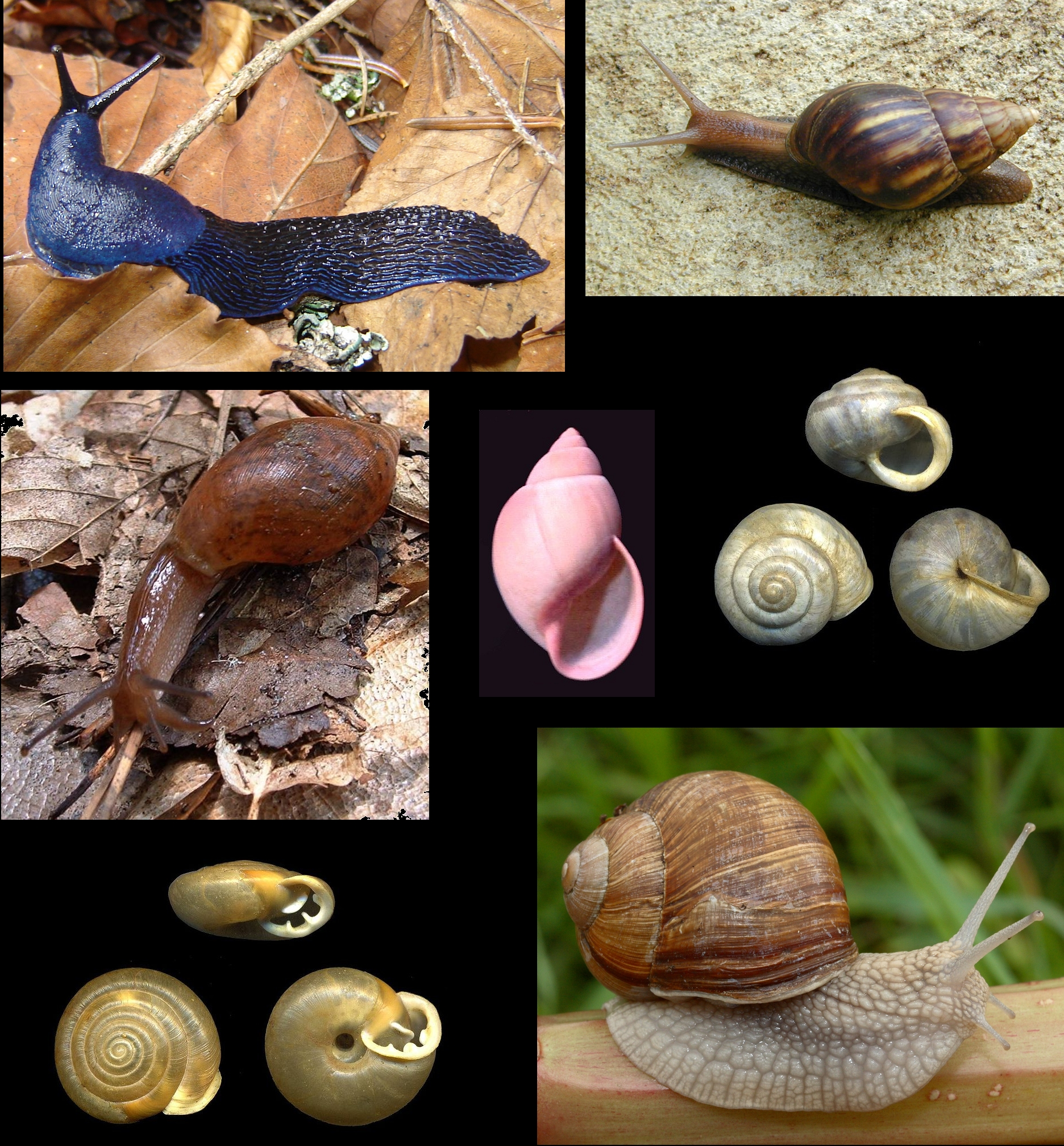 Composite of several images of gastropoda in the informal group Sigmurethra. Images: Helix pomatia Strophocheilus oblongus Achatina fulica Hawaii Bielzia coerulans Praticolella berlandieriana Ashmunella levettei Angigyra Euglandina rosea